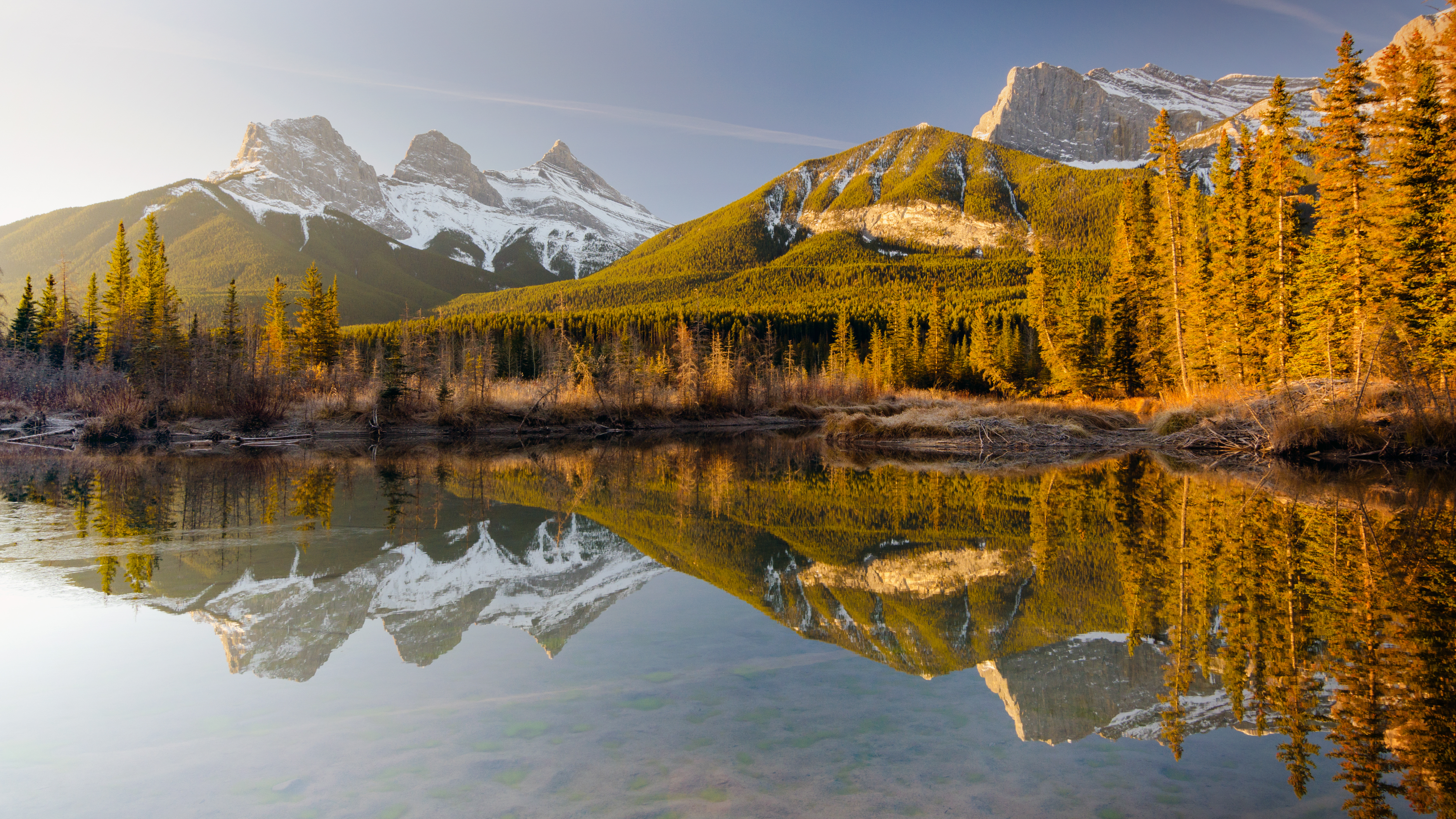 The Three Sisters from Policeman Creek, Canmore, Alberta, Canada. The Three Sisters are a trio of peaks. They are known individually as Big Sister, Middle Sister and Little Sister.